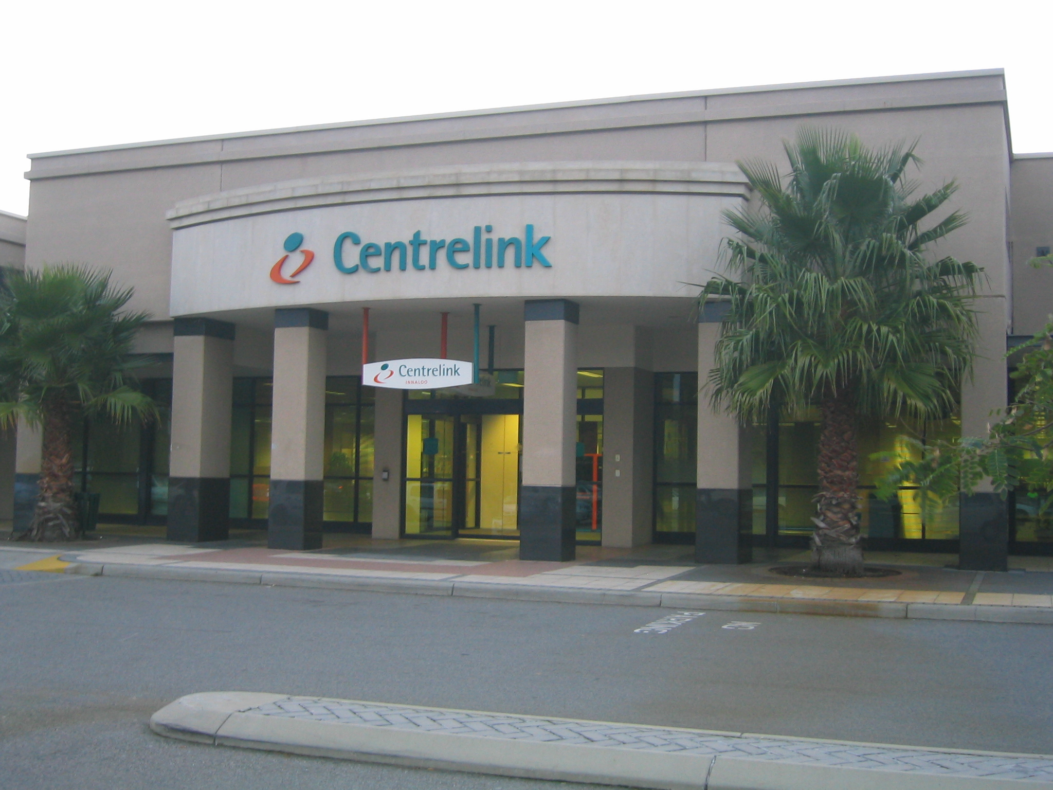 A Centrelink office in Innaloo, Western Australia.